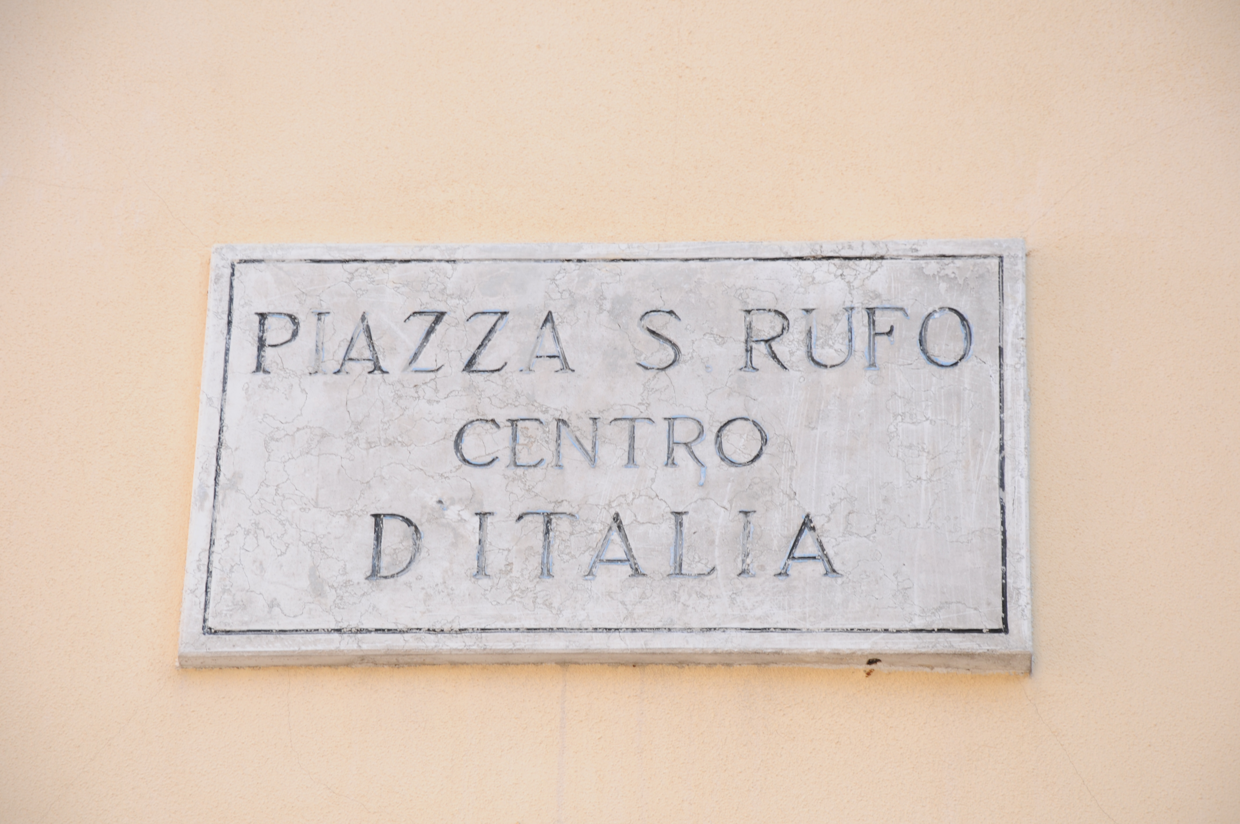 San Rufo square in Rieti (Lazio, Italy). It is traditionally believed to be the geographical center of Italy.